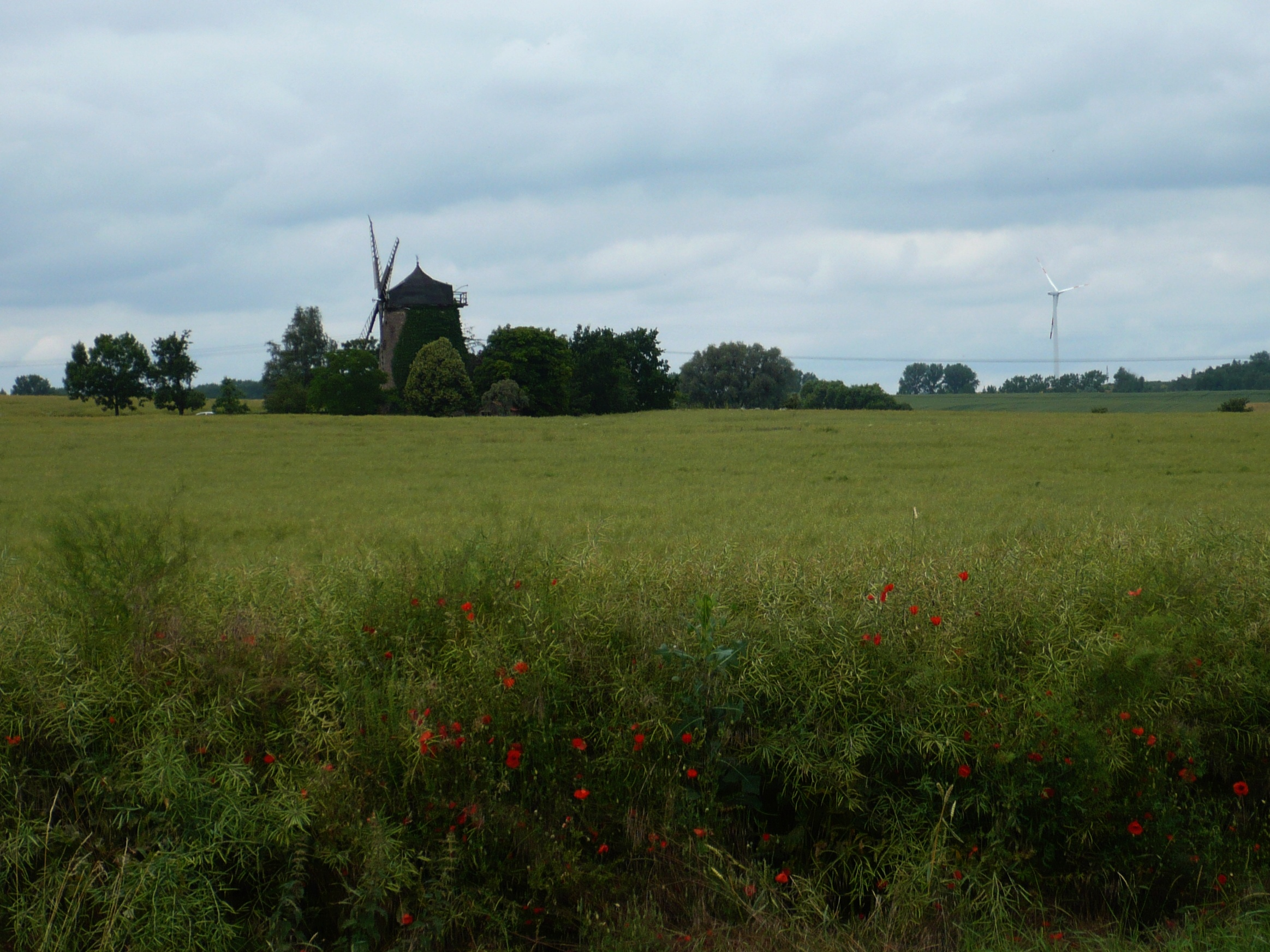 Windmill in Schnarsleben